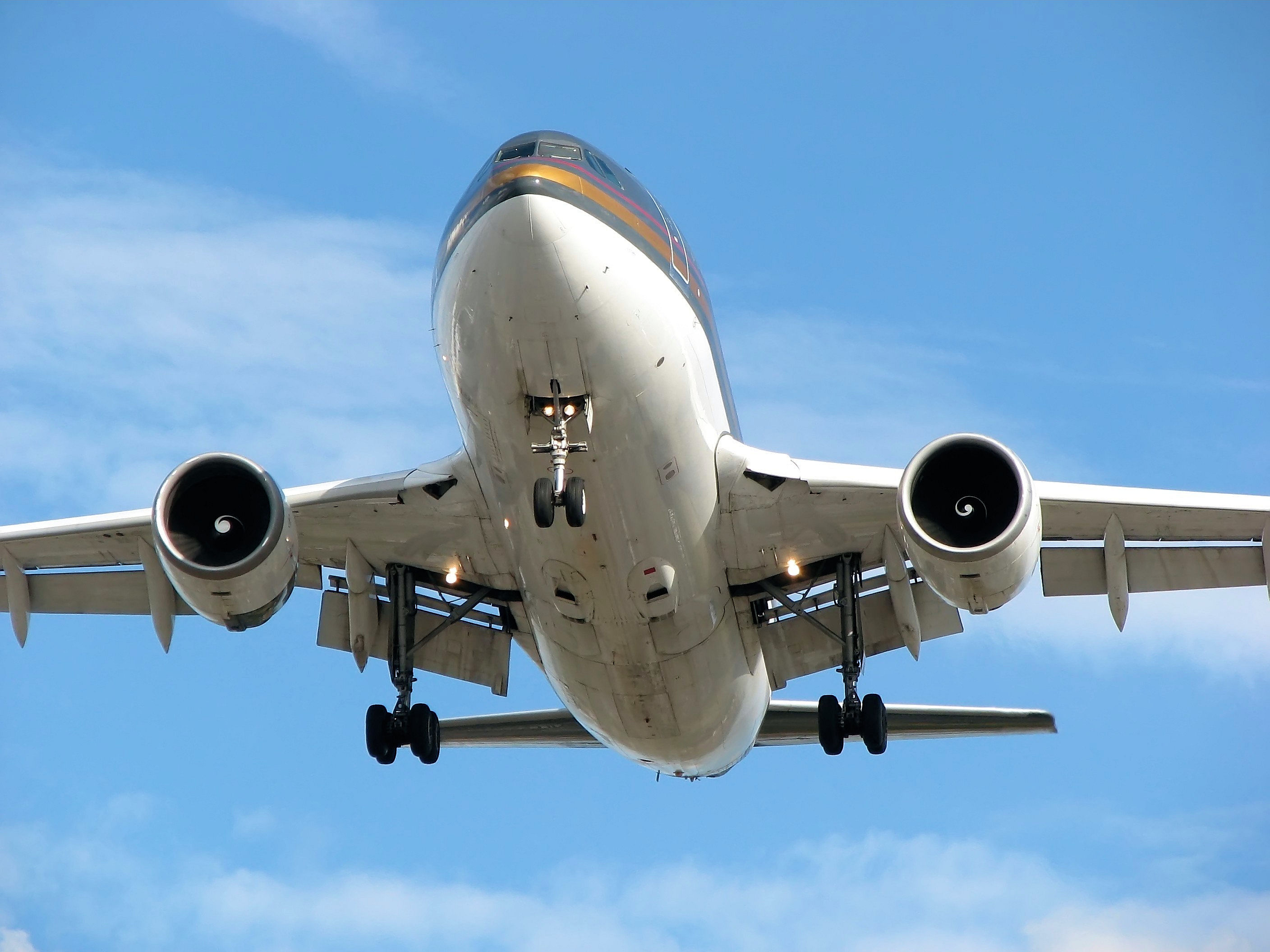 Landing lights on a Royal Jordanian A310 (registration not known) landing at London Heathrow Airport, England. Two lights on the nose undercarriage leg and two on the wing.